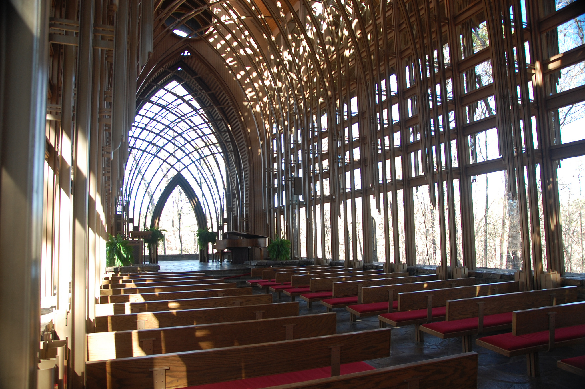 Mildred B. Cooper Memorial Chapel in Bella Vista, Arkansas